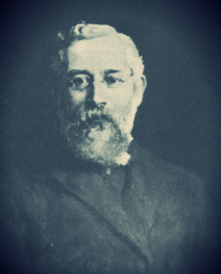 Simeon Singer. From a portrait by Solomon J. Solomon. R. A. From The literary remains of the Rev. Simeon Singer : sermons, published in 1908